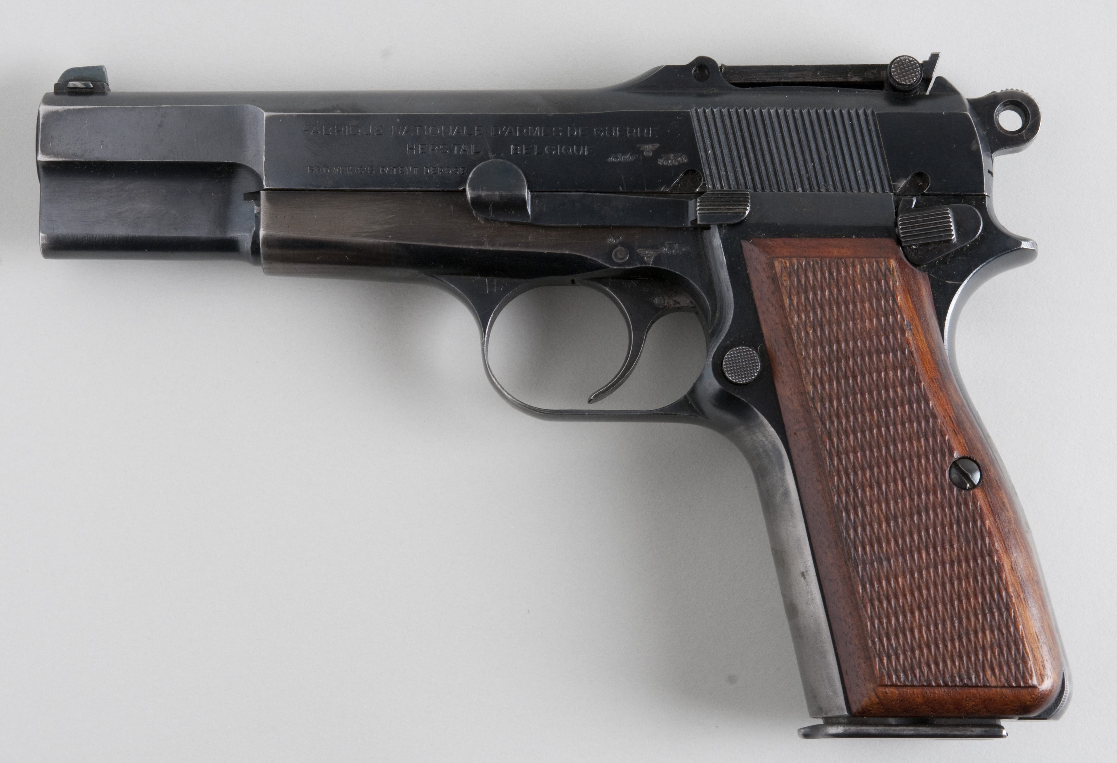 Hi-Power From flickr user handvapensamlingen - Pistols used in Norway.